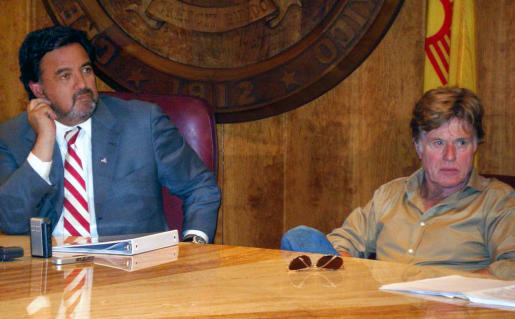 Gov. Bill Richardson and Robert Redford.